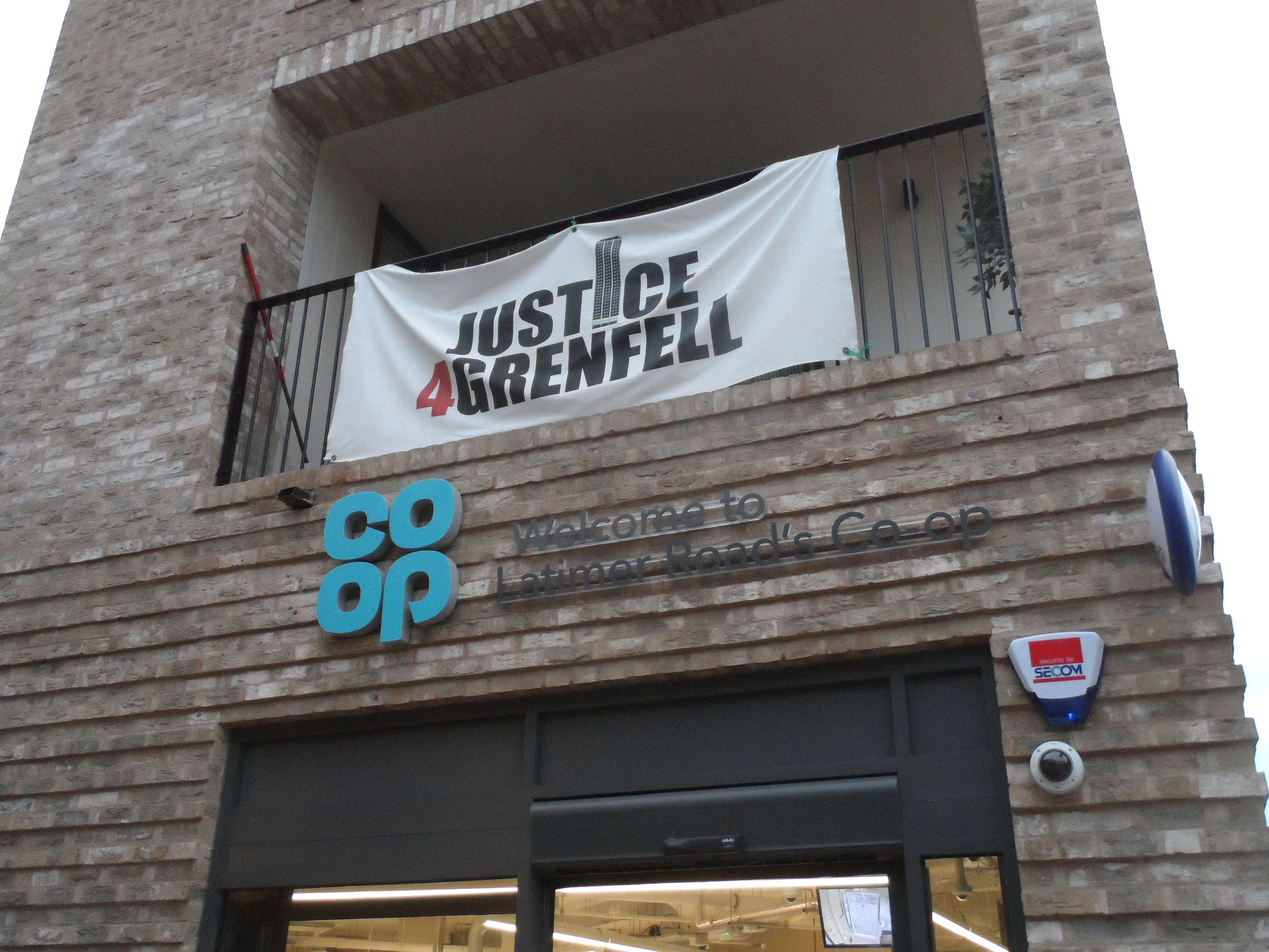 Banner for the 'Justice for Grenfell' campaign, erected on a balcony over the Latimer Road Co-op opposite the entrance to Latimer Road tube station. Photographed on 9 May 2018.